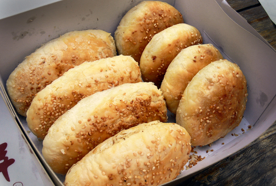 More Shaobing